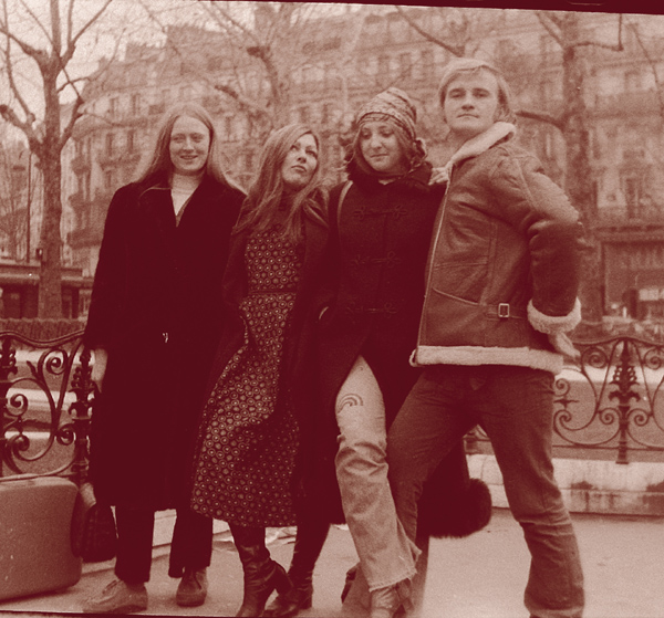 Richard Pochinko & Le Coq students, paris 1970